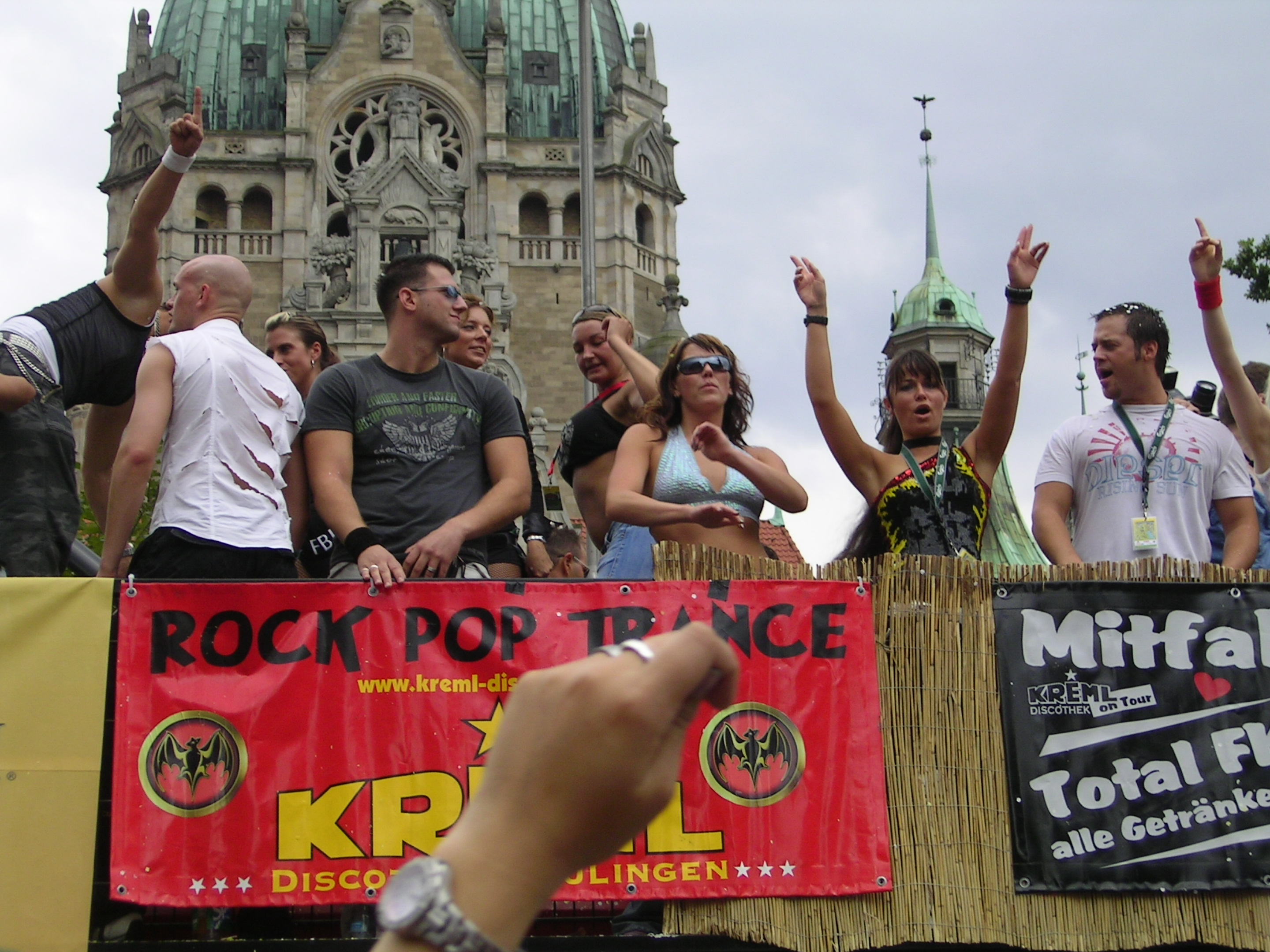 Reincarnation 2006, in front of Hannover RatHaus, 19 August 2006 User:Tarawneh/rami